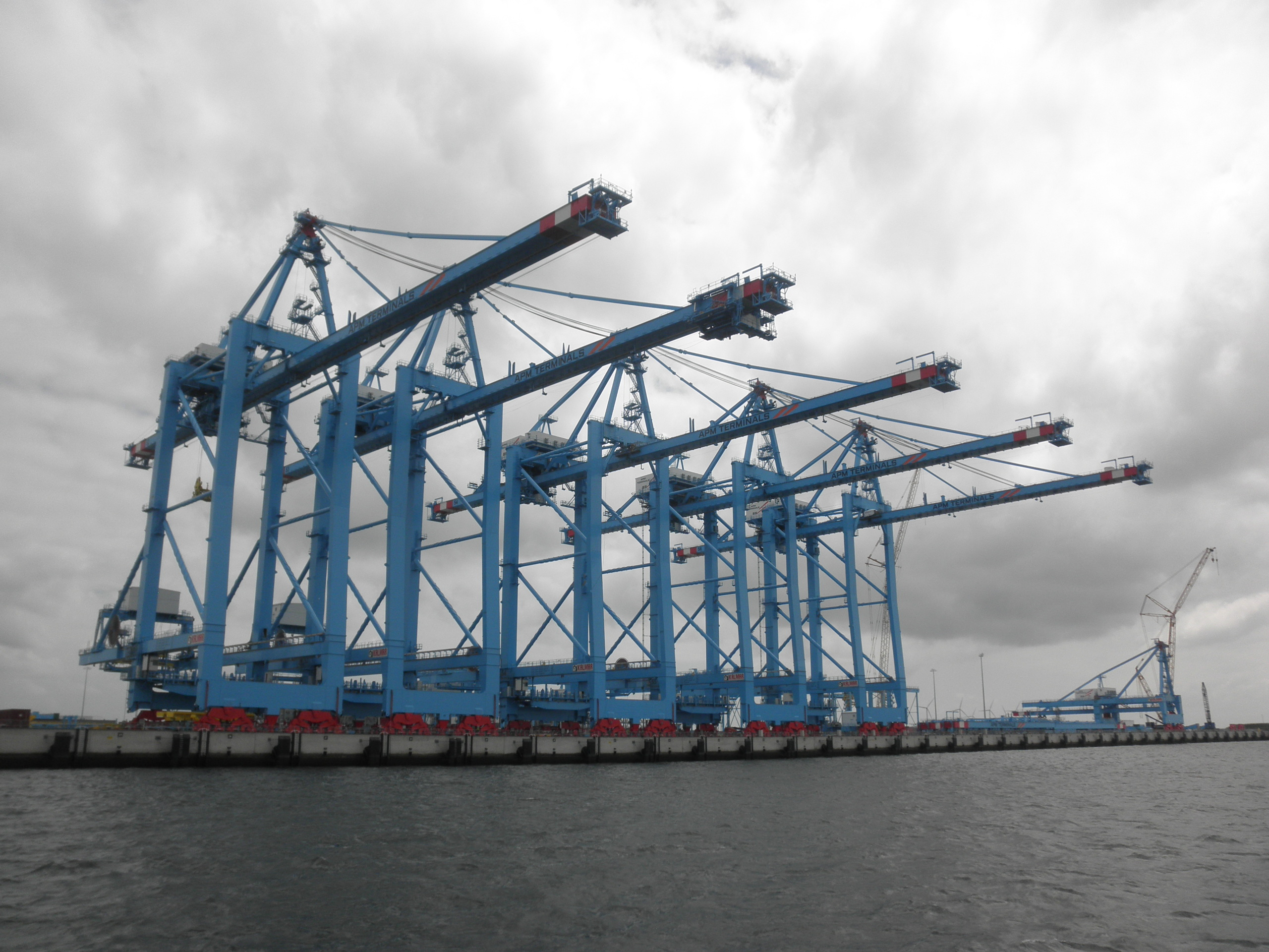 Five Super-Post Panamax containercranes and a sixth - on the right - - being assembled at the containerterminal of APT Terminal at the Maasvlakte, port of Rotterdam